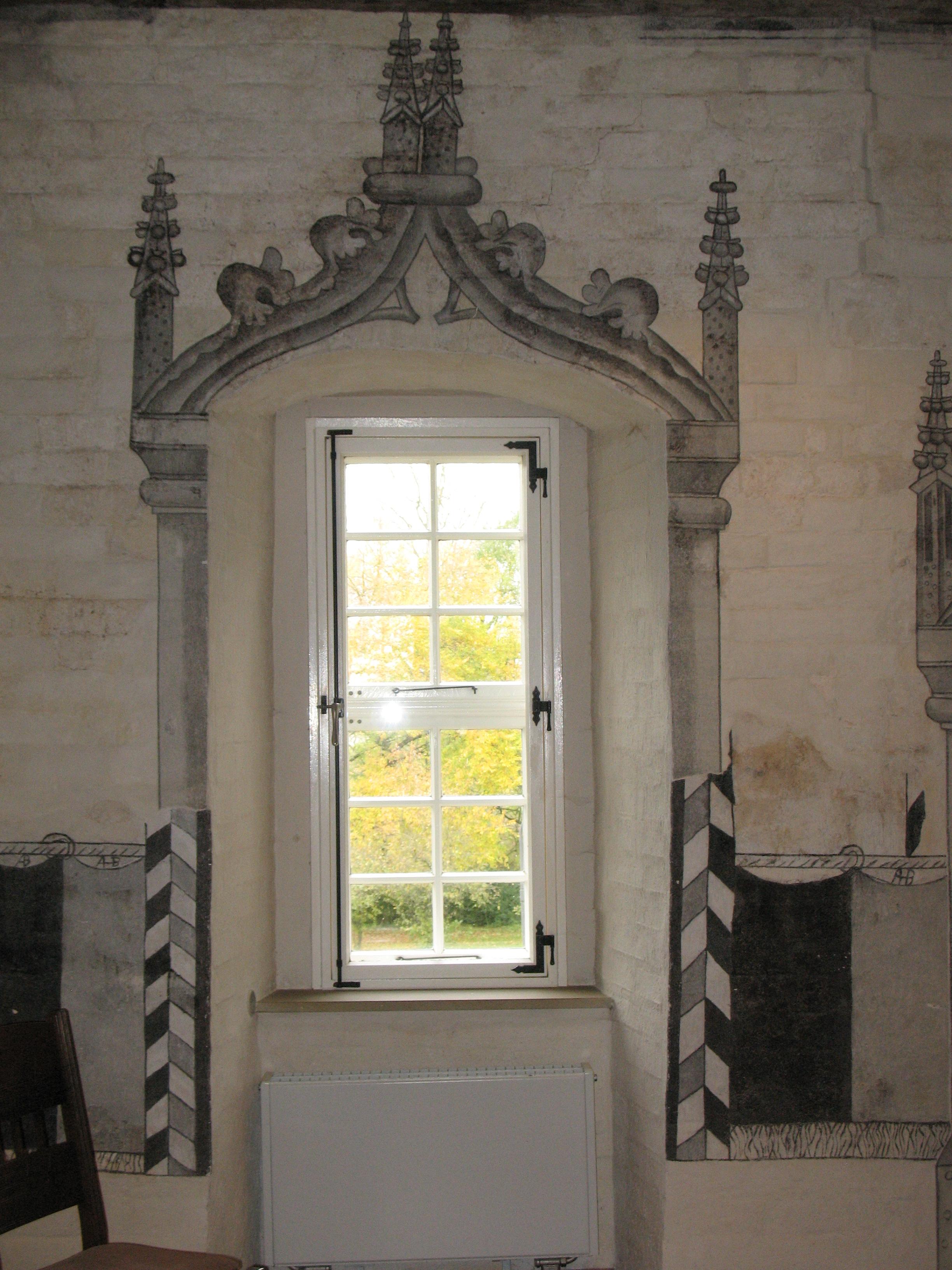 paintings Castle Hagen